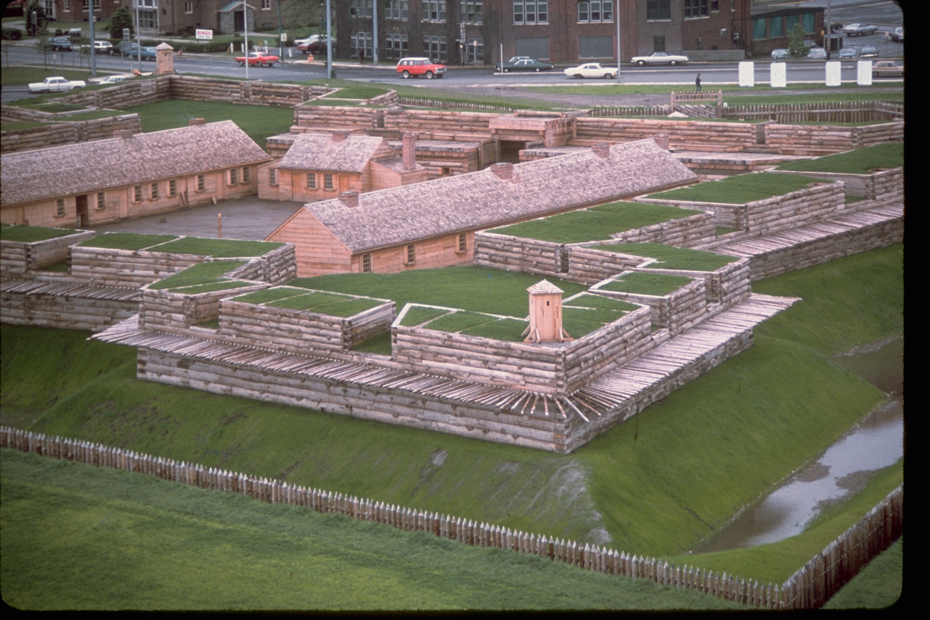 Location Fort Stanwix National Monument Description Discover how people endured harsh conditions along the Oneida Carrying Place. Learn how the American victory at this frontier fort directly contributed to the British defeat at Saratoga in 1777; setting the stage for westward expansion through New York. Follow in the paths of the people who made history in the Mohawk Valley during the American Revolutionary War.